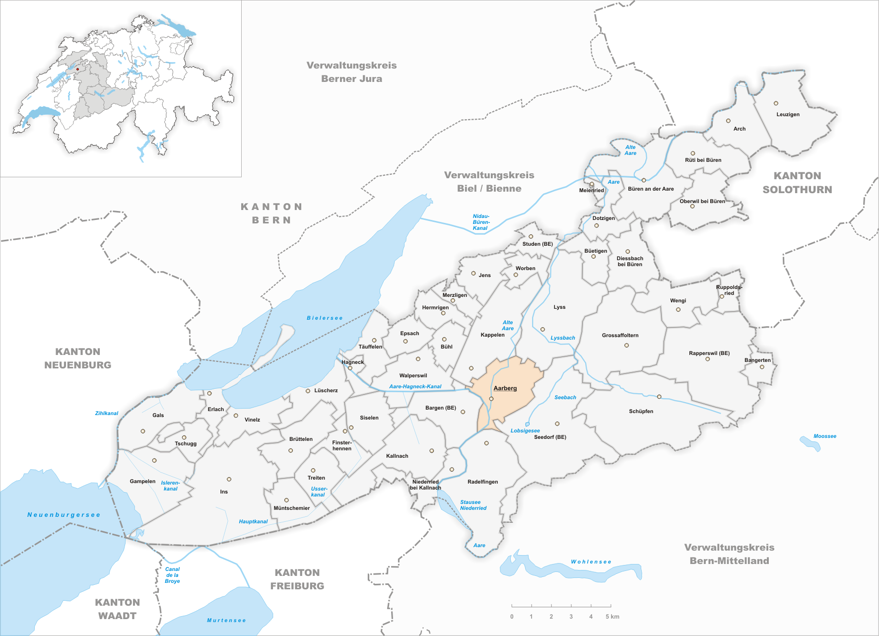 Municipality Aarberg